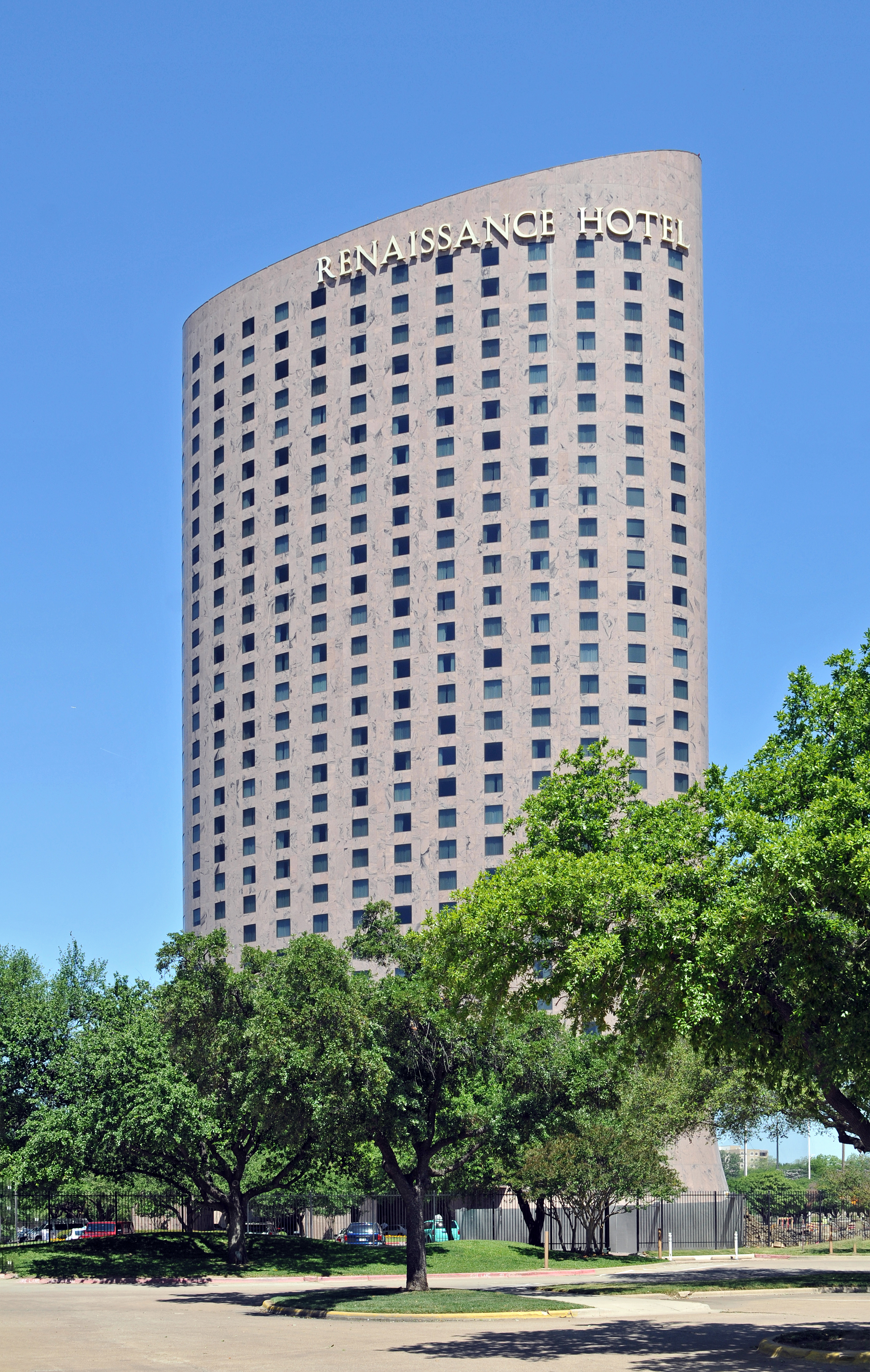 Renaissance Dallas Hotel - Front side